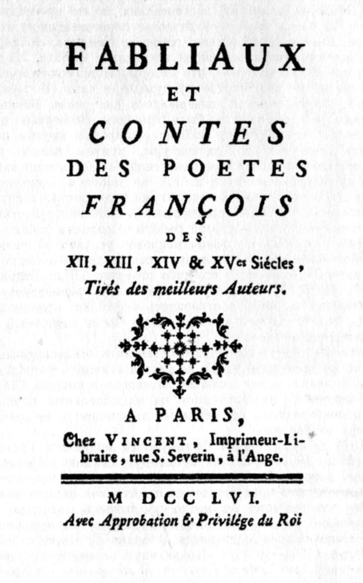 The title page of the first edition of fabliaux (1756).